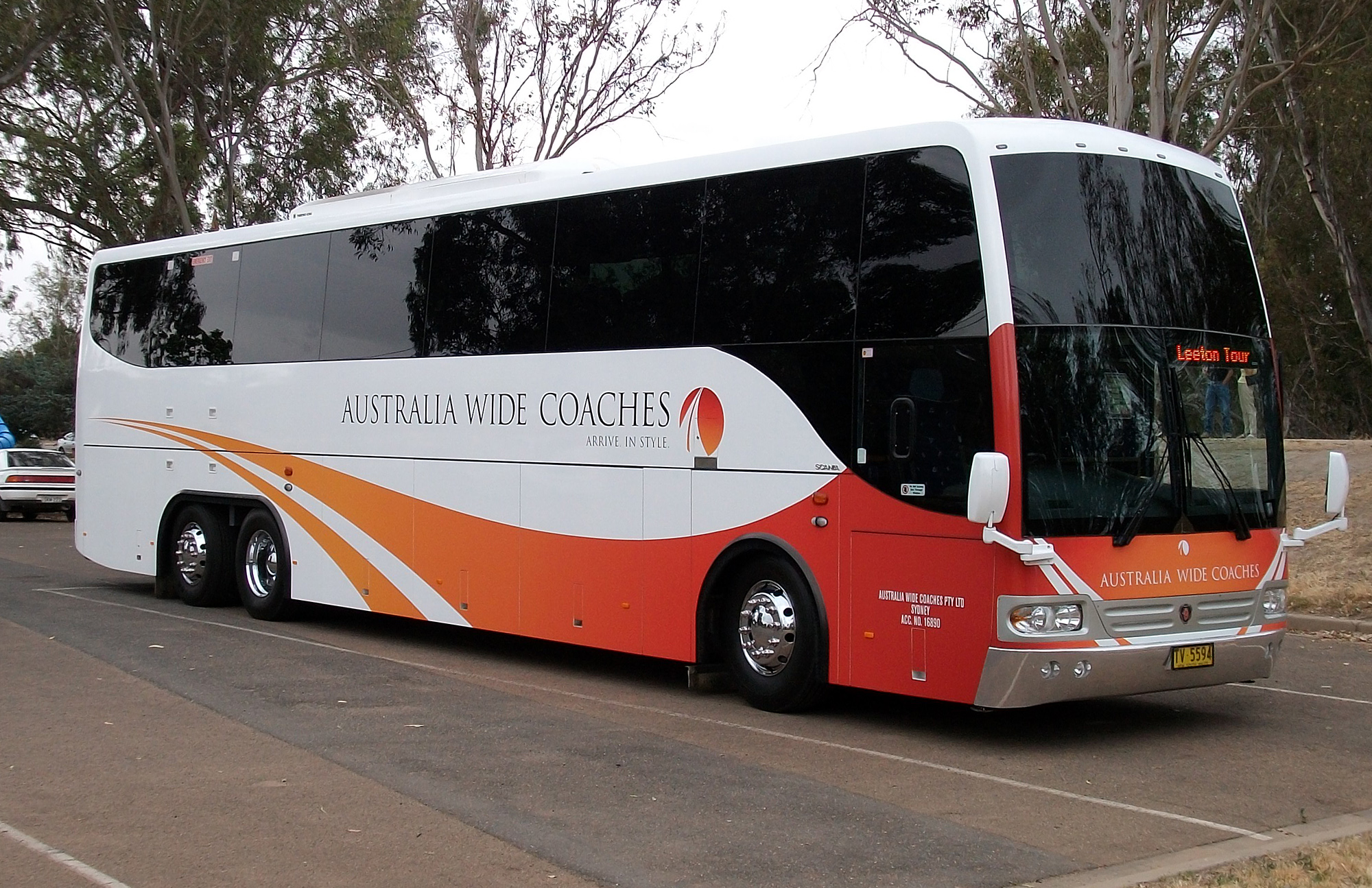 Coach Design bodied Scania K-series Opticruise (TV 5594) operated by Australia Wide Coaches.